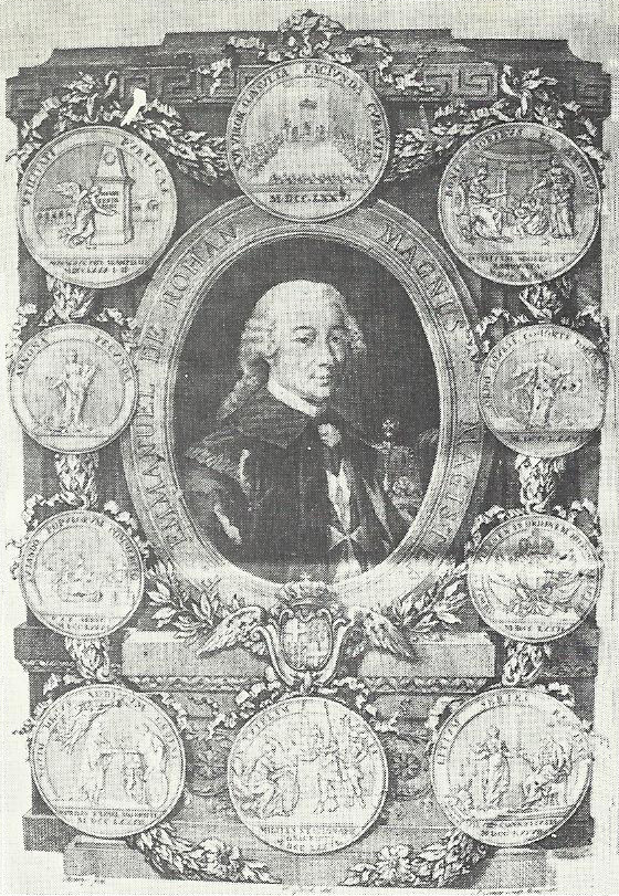 The frontispiece of the Diritto Municipale, showing Grand Master Rohan